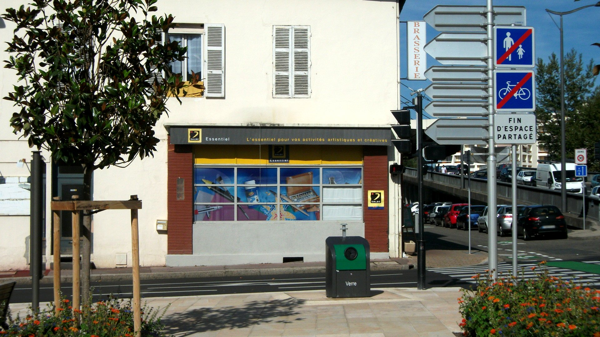 Avenue de Gramont in opposite direction with 3 signs to indicate end of a shared space.